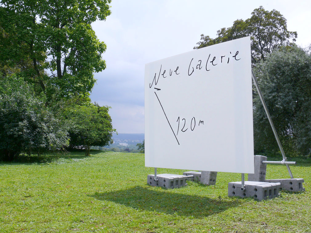 White signs that can be seen everywhere in the city. The signs are meant to be in the way of the persons in the city or the city zone and restrict the usual “walking flow”. “Raw”, already existing material is used. The bases of the signs are made of coarse concrete blocks as they can also be found on building sites.